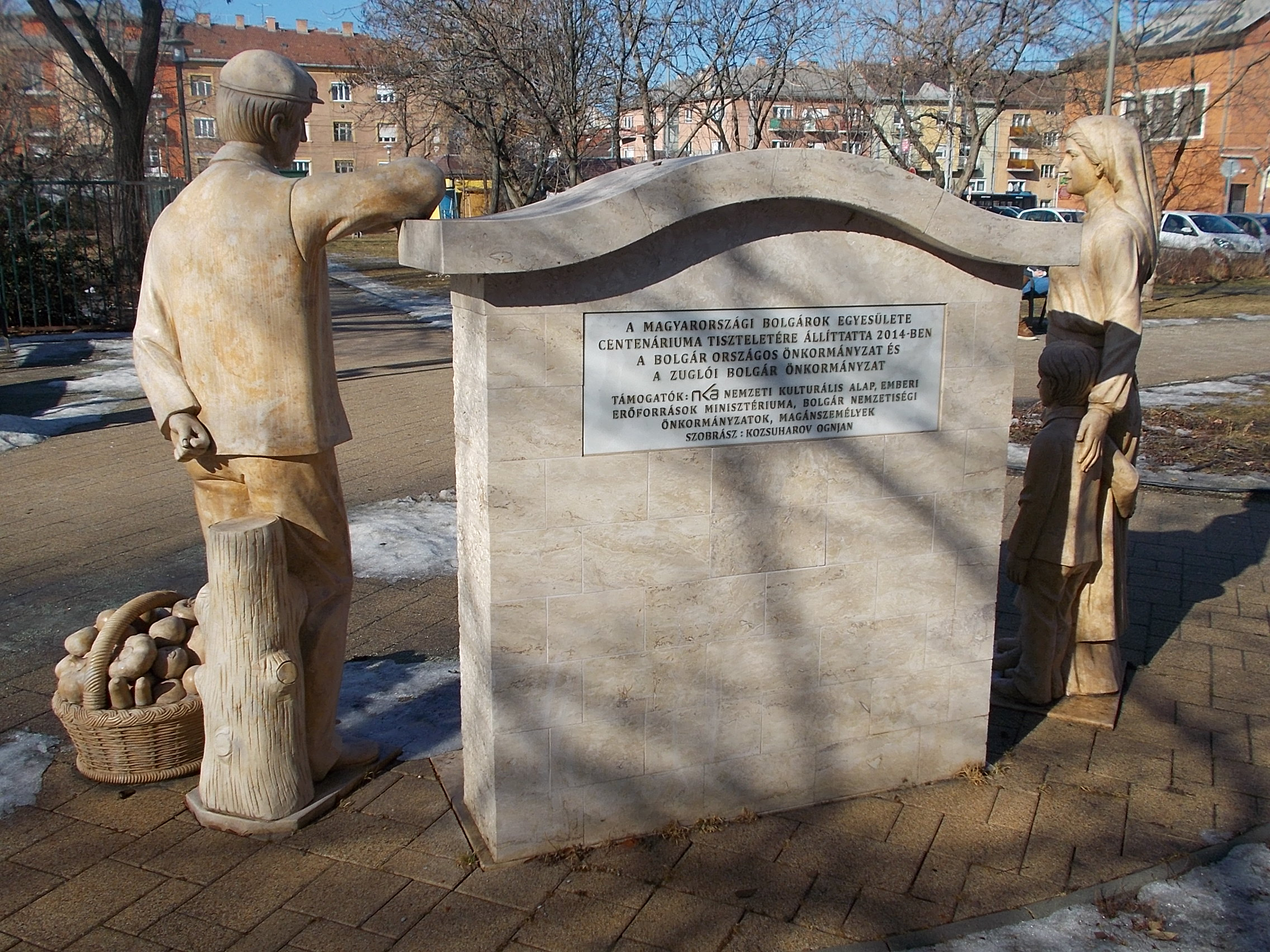 Bulgarian Gardening Monument (Bolgárkertész Monument) by Kozsuharov Ognjan, 2014. - Bosnyák Square, Alsórákos neighborhood, Budapest District XIV.